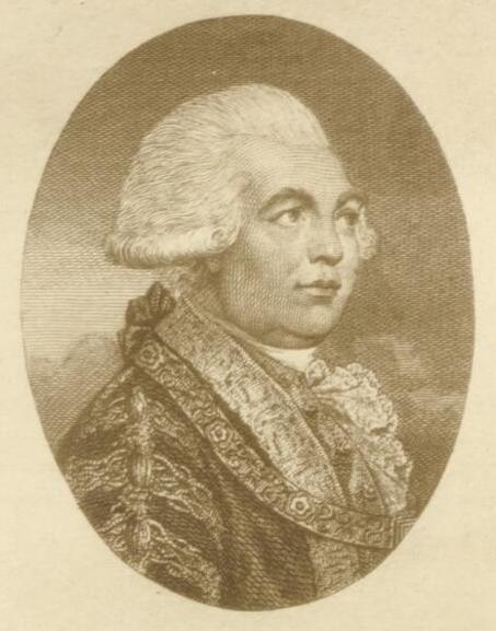 A portrait from the Welsh Portrait Collection at the National Library of Wales. Depicted person: Watkin Lewes – British politician